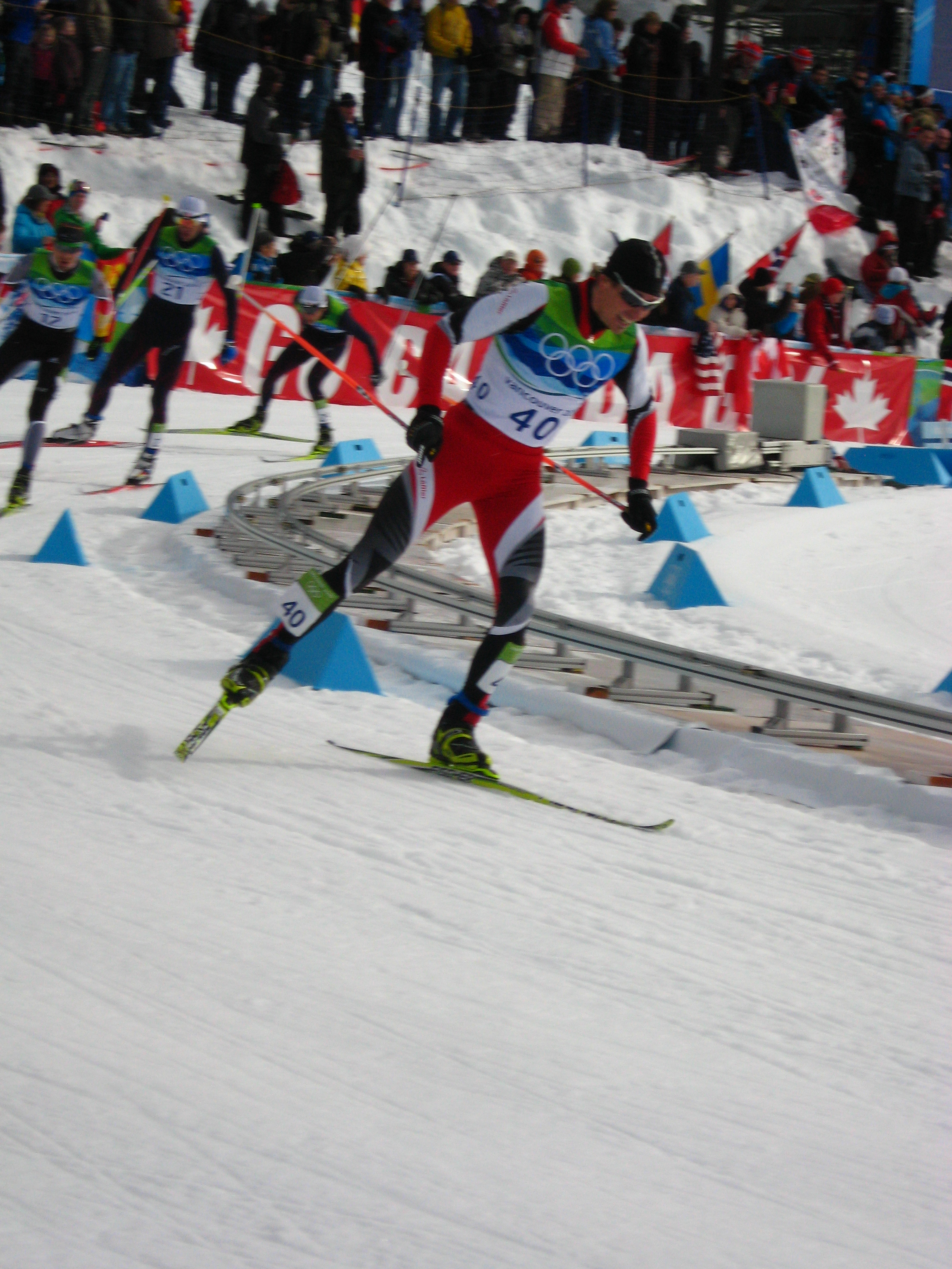 Austrian nordic combined skier Felix Gottwald at the 2010 Winter Olympics during second part of the Individual large hill/10 km event.